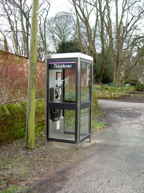 Brimstage Telephone Box.